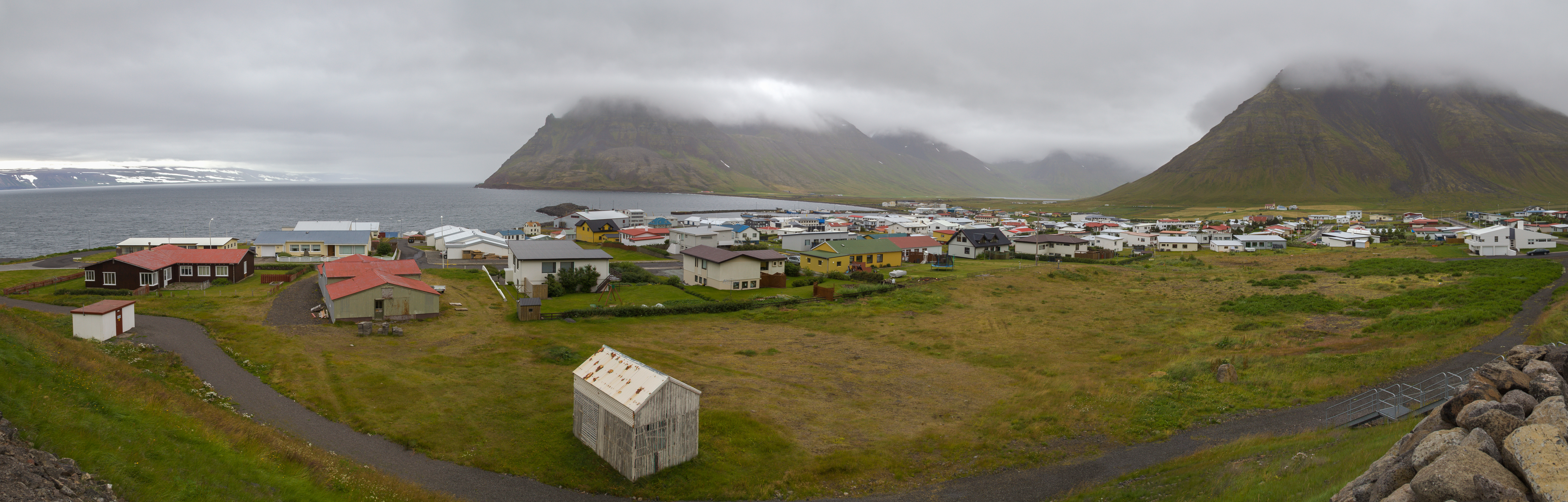 Bolungarvík, Vestfirðir, Iceland.